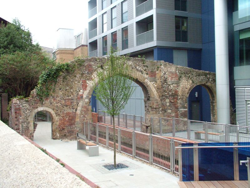 This arch is all that remains from the original Reading Abbey Mill. It is now surrounded by modern office buildings